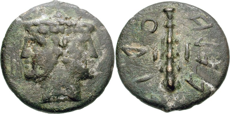 Etruria, Volaterrae (nowadays Volterra. Circa 230-220 BC. Æ Aes Grave Dupondius (257 gm). Janiform head wearing pointed petasos FELA-ODI (Etruscan Velathri) retrograde around club flanked by I-I. Thurlow-Vecchi 85; HN Italy 109a; Haeberlin pl. 83, 1. Good VF, green patina. Very rare and exceptional. ($2000) Etruria, Volaterrae (nowadays Volterra. Anonymous. Circa 230-220 BC. Æ Aes Grave Dupondius (288.90 g, 6h). Janiform head wearing pointed petasos FELA-ODI (Etruscan Velathri) retrograde around club flanked by I-I. Thurlow-Vecchi 85; Haeberlin pl. 83, 2 (this coin); HN Italy 109a. VF, dark green patina, earthen highlights, some light cleaning scratches, scrape on reverse. Choice for issue. From the Peter J. Laux Collection. Although there was a hoard of aes grave from Volaterrae dispersed by Münzen und Medaillen in the early 1970s, apparently there were not many examples of this type as the number of extant specimens in 1979 (when Thurlow and Vecchi published their work) was only nine.